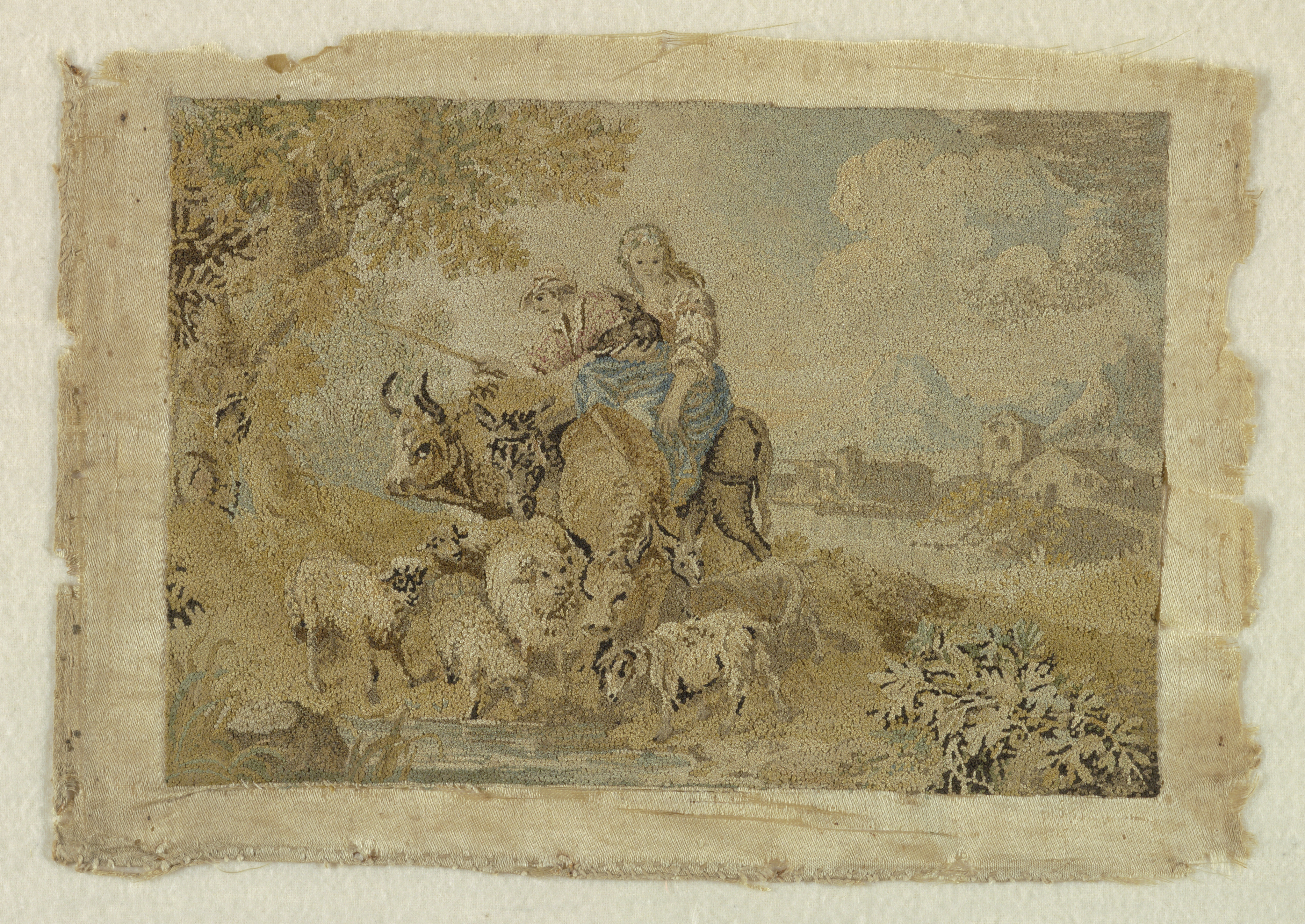 Picture of a girl on a donkey and a boy on a bull with a flock of sheep in a rural landscape done entirely in knot stitches.